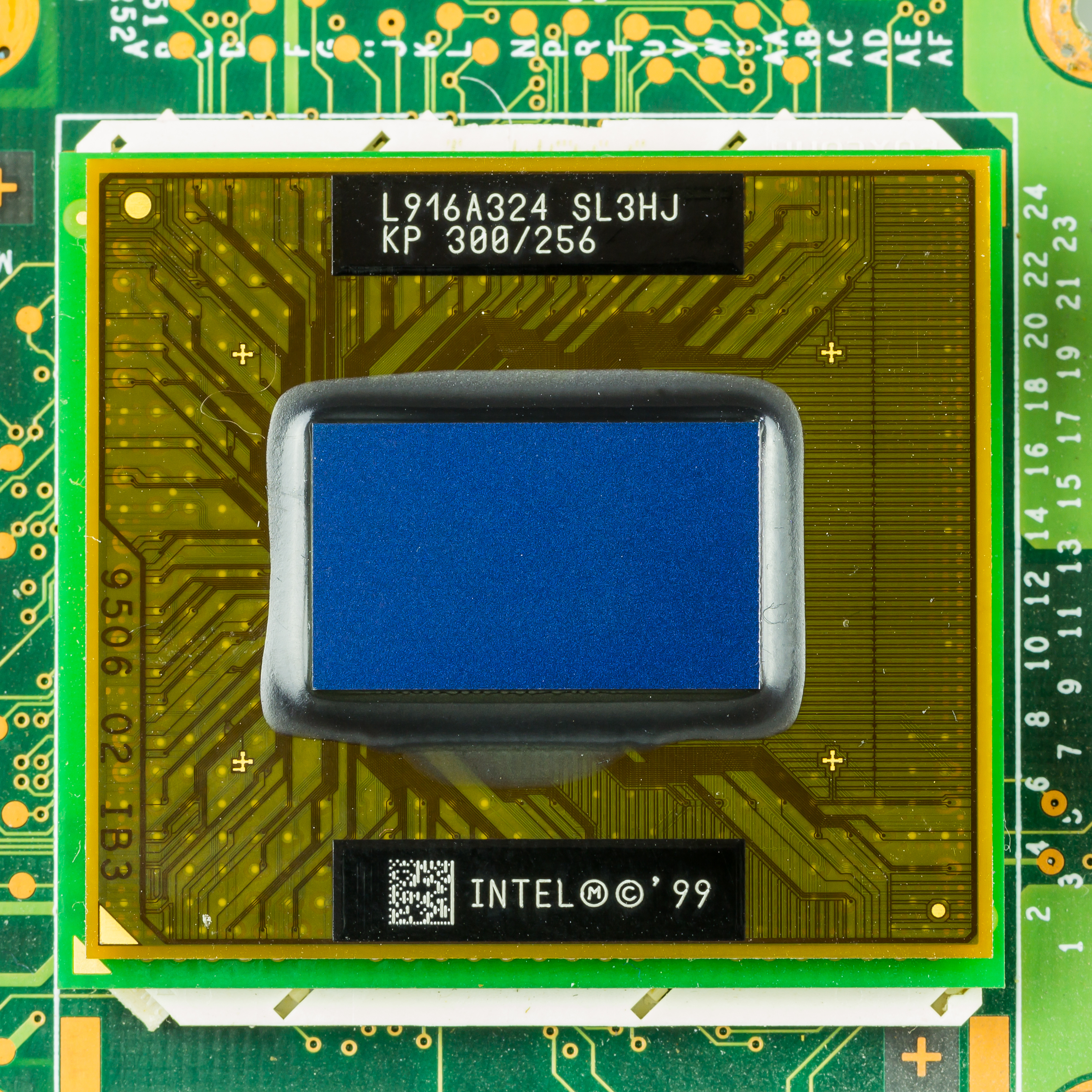 Lifetec LT9303 - Motherboard -Mobile Pentium II 300PE, Dixon core, sSpec number SL3HJ